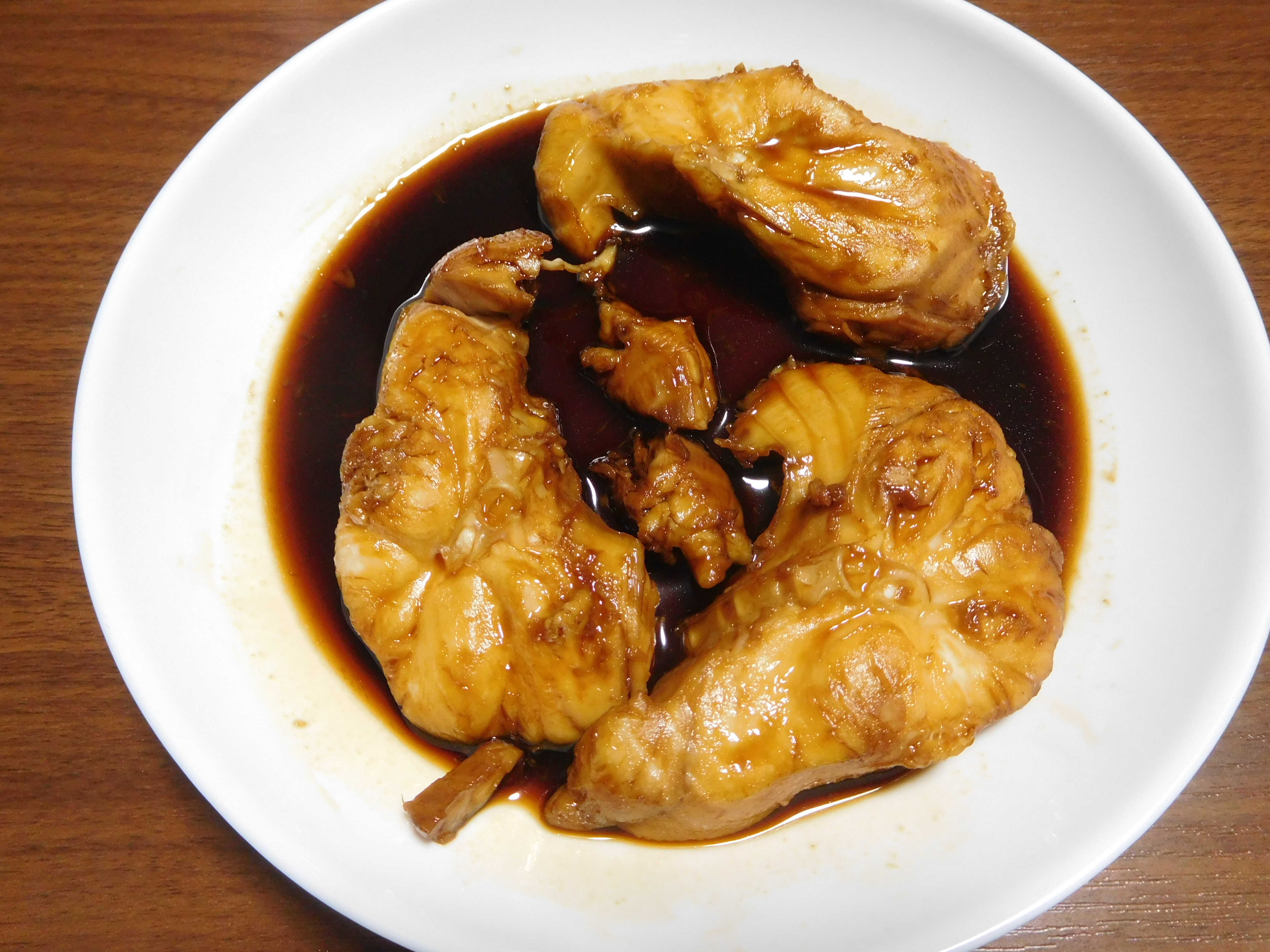 This is a local food of Tochigi prefecture. It is called "Saganbo no Nitsuke". Saganbo means "north pacific spiny dogfish".